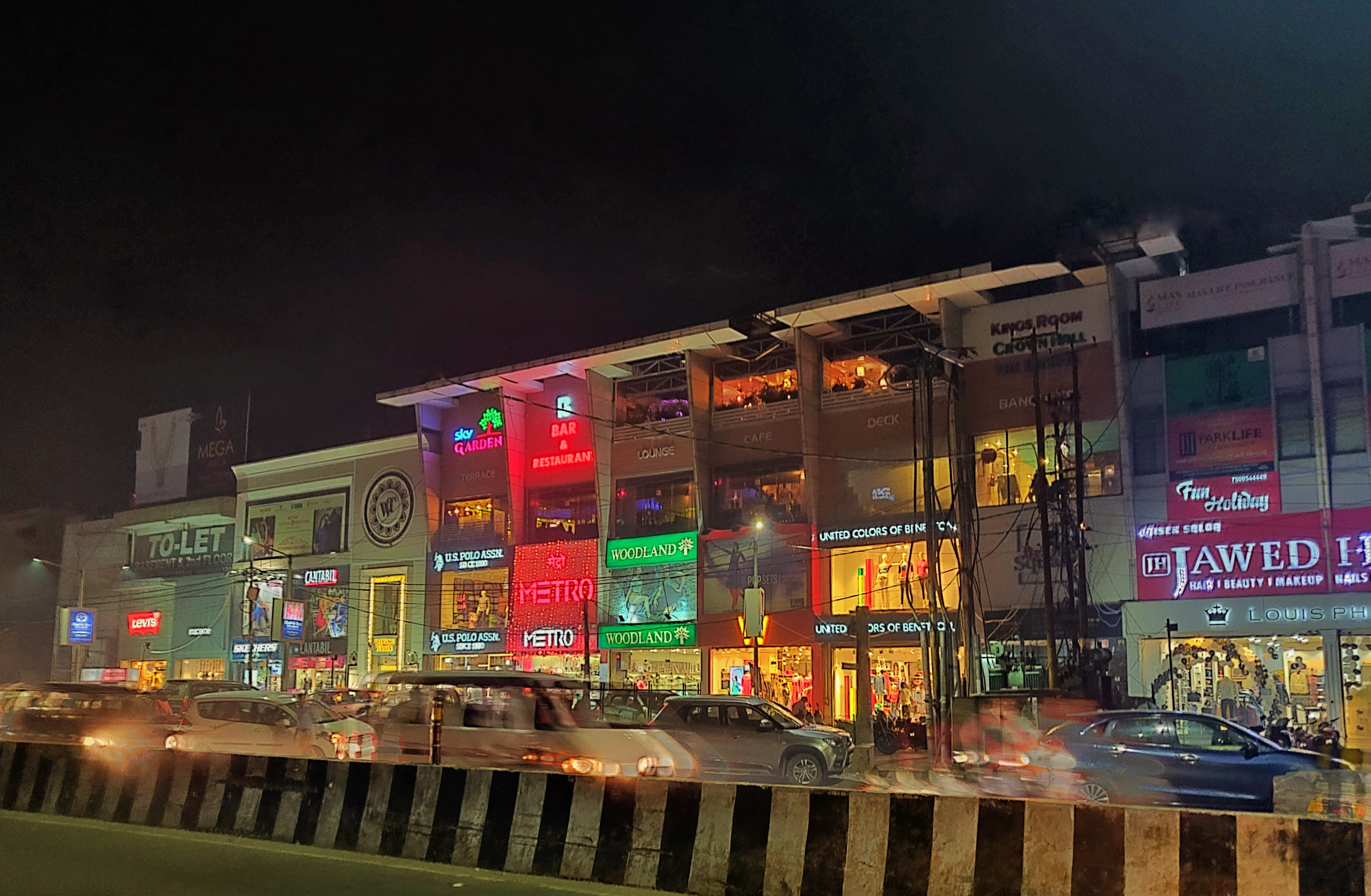 Ayub Khan Chauraha Market, Bareilly